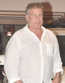 Actor Kunal and Karan Kapoor at Kunal Kemmu's party in 2020